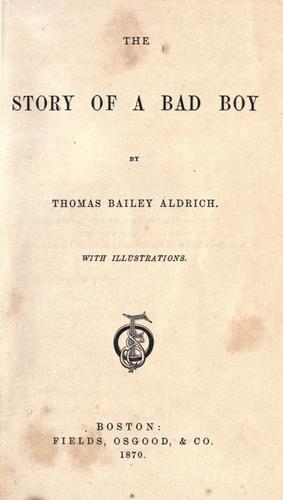 Title page of The Story of a Bad Boy (1870) by American writer Thomas Bailey Aldrich (died 1907). Published by Fields, Osgood, & Company, Boston, Massachusetts.